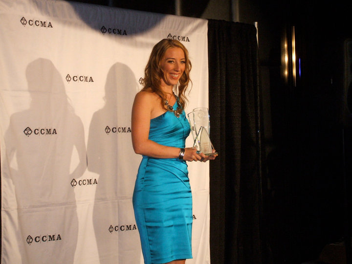 Livewirer (talk) 09:30, 1 October 2010 (UTC)